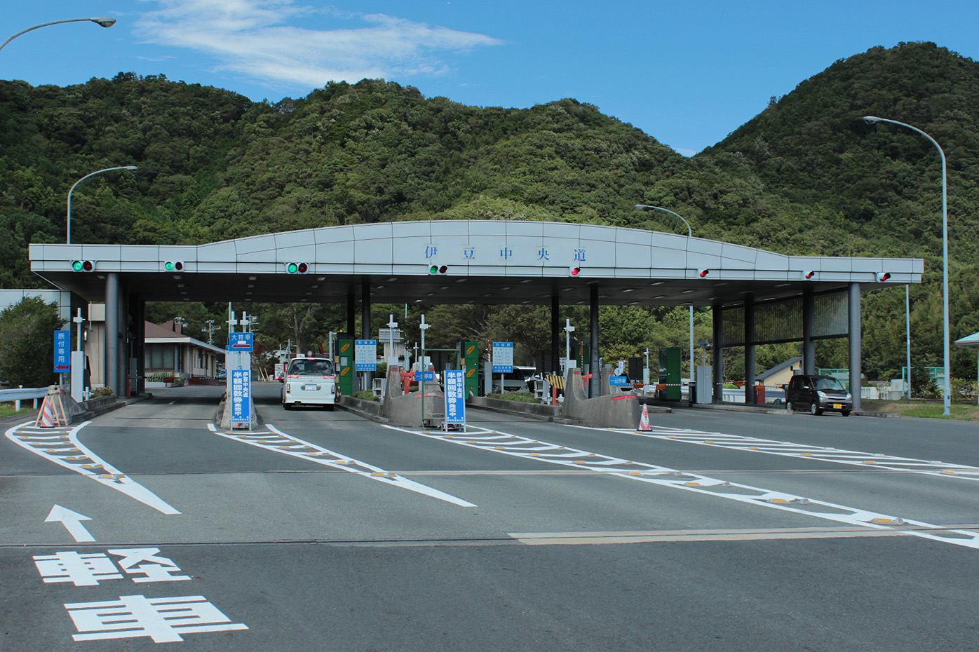 Ema toll gate in Izunokuni, Shizuoka Prefecture, Japan.